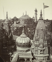 Kashi Vishwanath temple, Varanasi, India